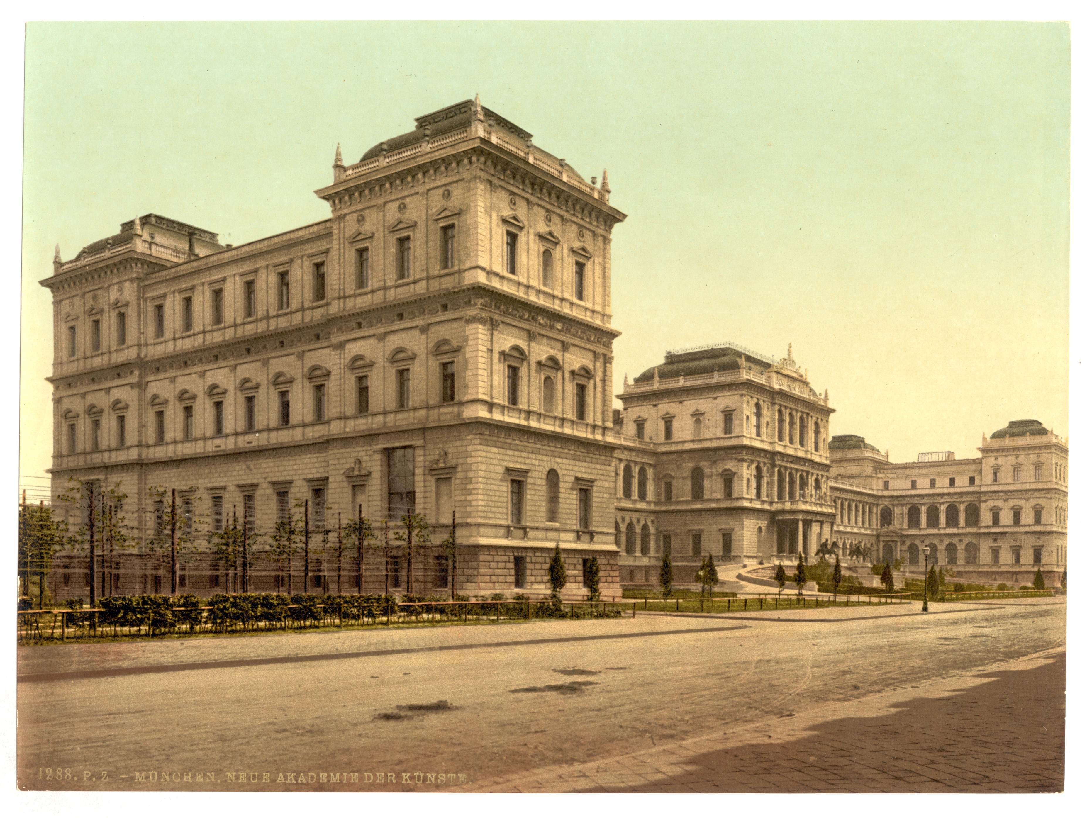 Title from the Detroit Publishing Co., catalogue J-foreign section. Detroit, Mich. : Detroit Photographic Company, 1905.; Forms part of: Views of Germany in the Photochrom print collection.; Print no. "1288".